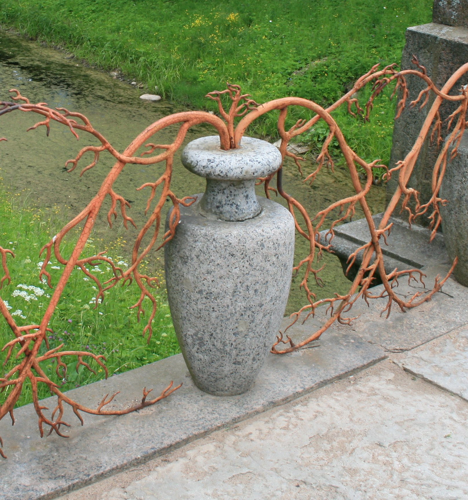 Fragment of Greater China bridge